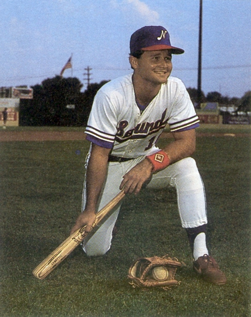 Second baseman Jeff Treadway of the 1987 Nashville Sounds Minor League Baseball team of the American Association